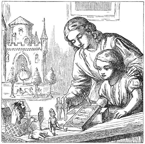 From 'Andersens Sproken en vertellingen' by Hans Christian Andersen, Titia van der Tuuk (ed.) and Simon Jacob Andriessen (trans.). Gebroeders E. & M. Cohen, Nijmegen - Arnhem. Illustrated by Alfred Walter Bayes (1832-1909) and engraved by the Dalziel Brothers (Edward Daziel, 1817-1905; George Daziel, 1815-1902).